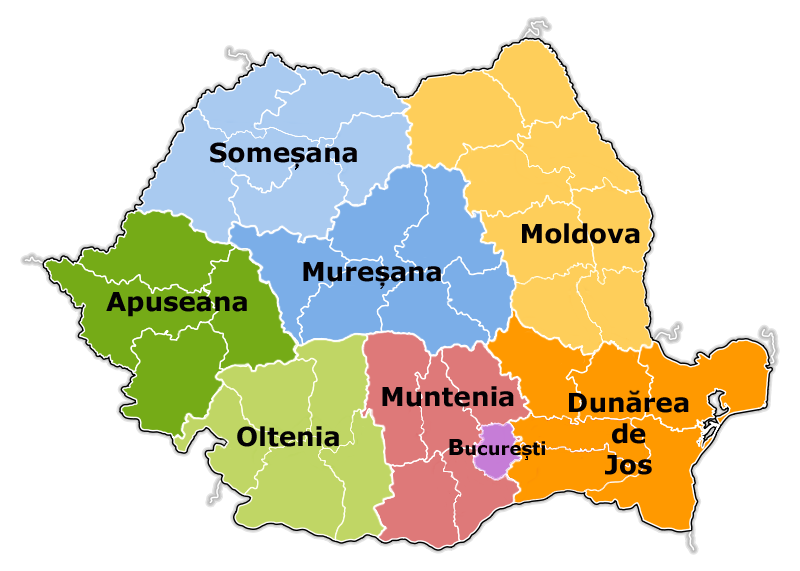 One of the administrative reform projects in Romania